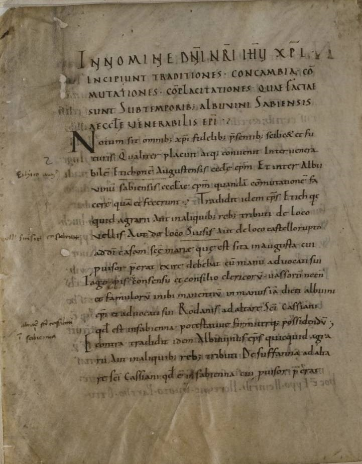 Traditionsbuch des Hochstifts Brixen A (Cod. 139), fol. 1v